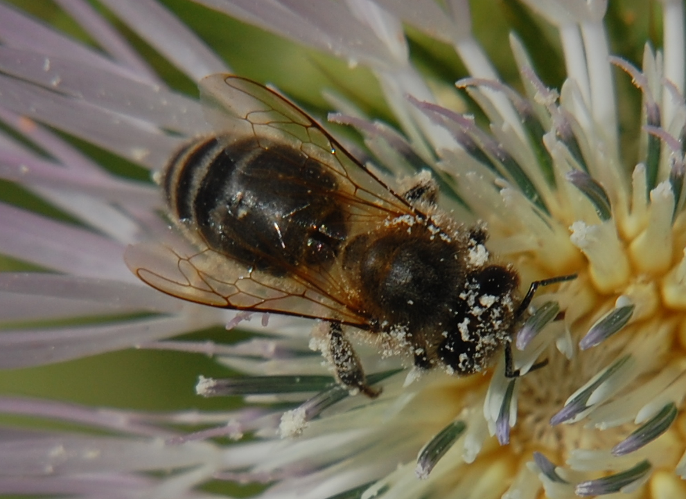 Apis mellifera, a bee, on thistle, at S'Albufereta, Port de Pollença, Majorca. Ref: DSC 0637